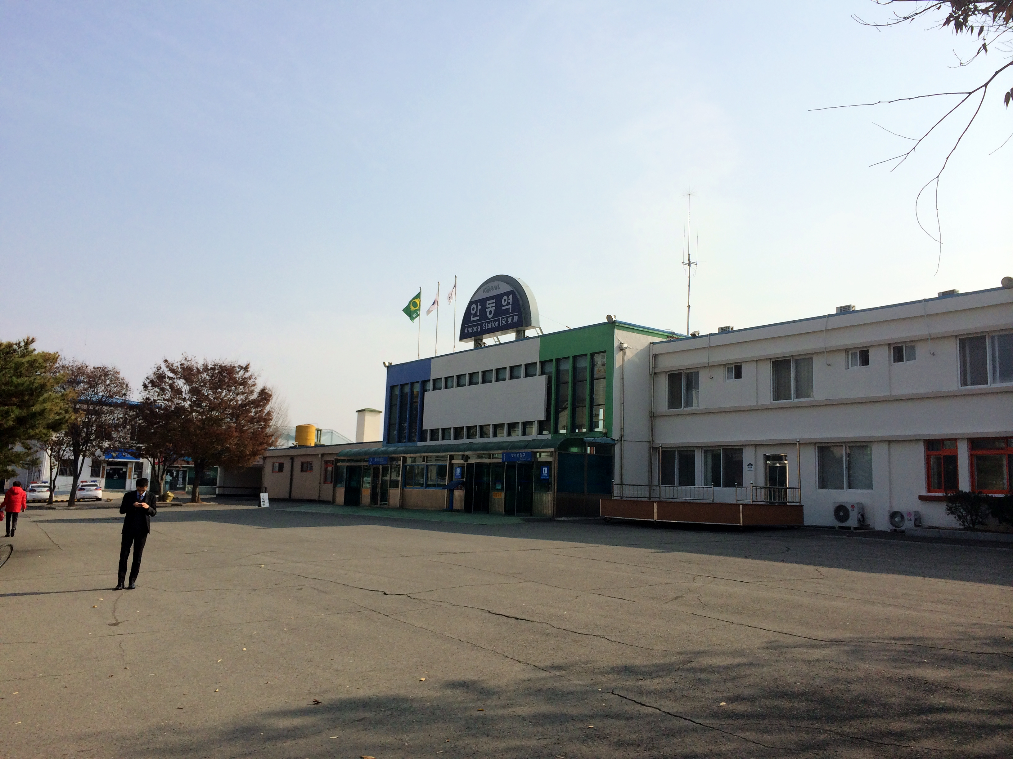 Andong Station and station square